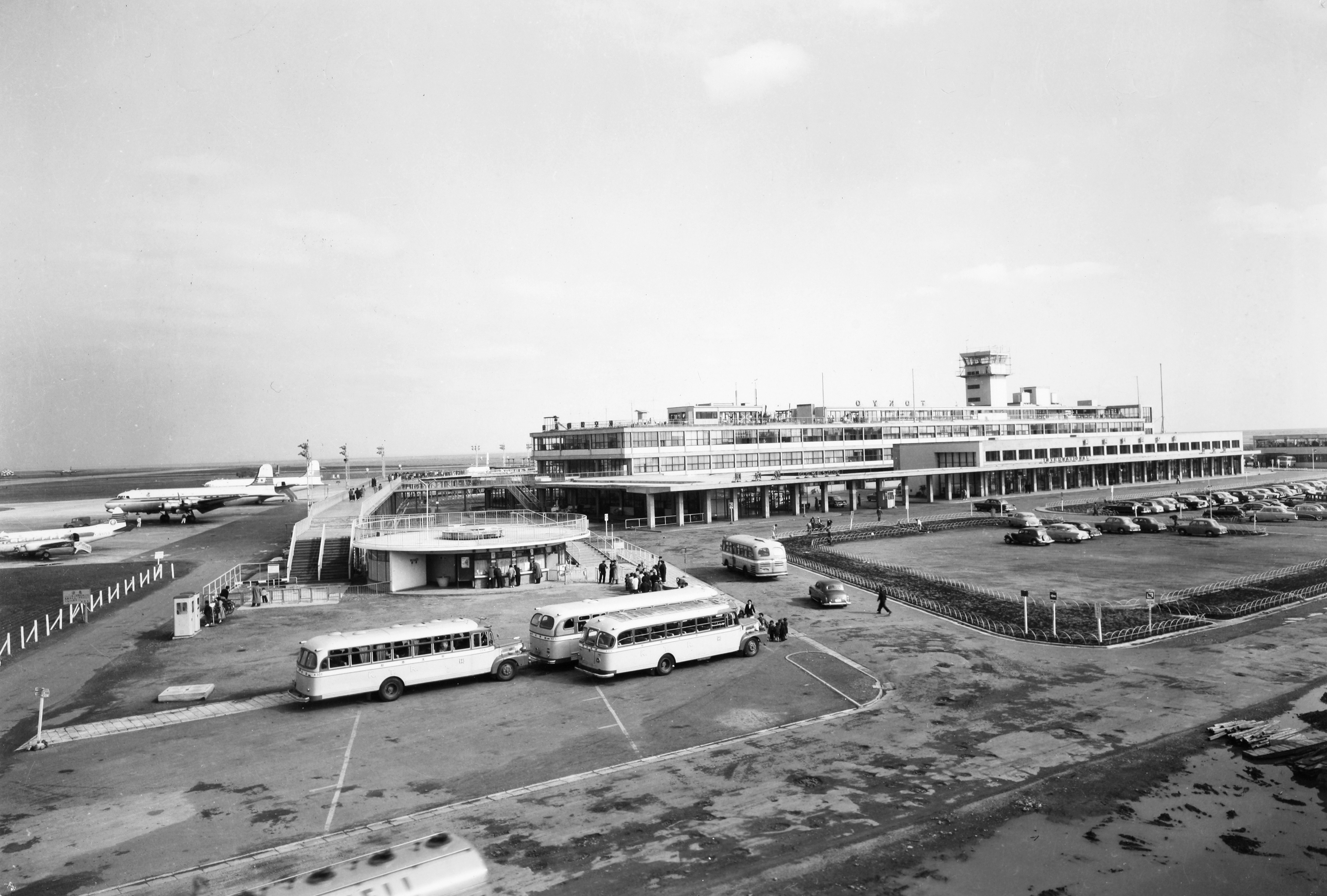 Airport Tokyo Haneda International HND, Areal view of Tokyo Haneda International Airport, Tokyo, Japan.